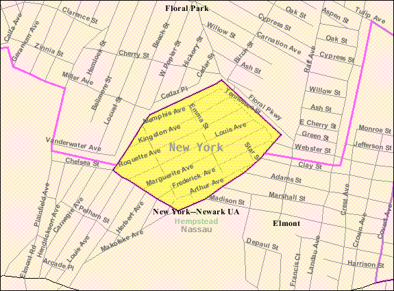 U.S. Census 2000 reference map for South Floral Park, New York